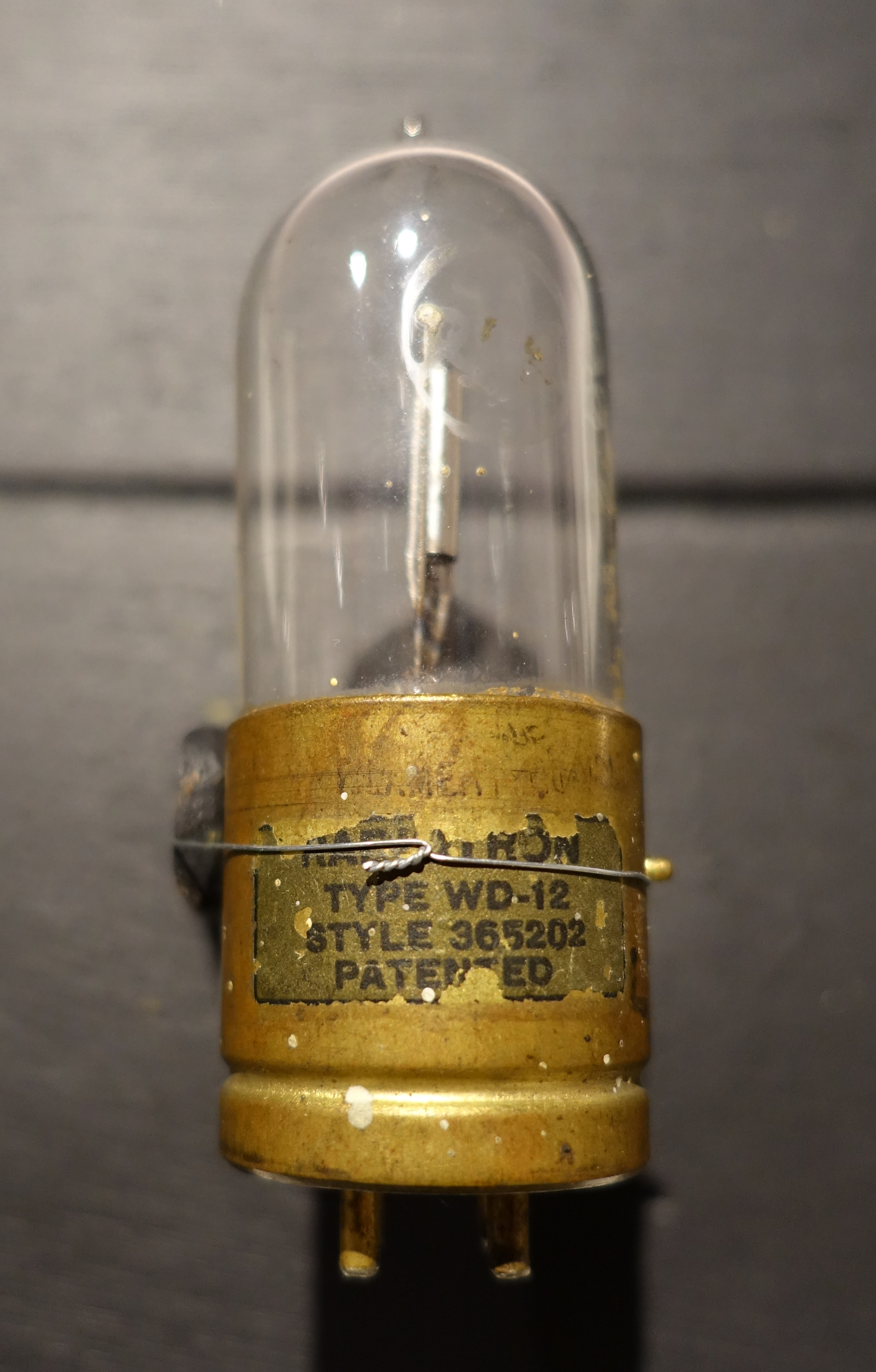 Exhibit in the National Electronics Museum, 1745 West Nursery Road, Linthicum, Maryland, USA. All items in this museum are unclassified. The museum permitted photography without restriction.